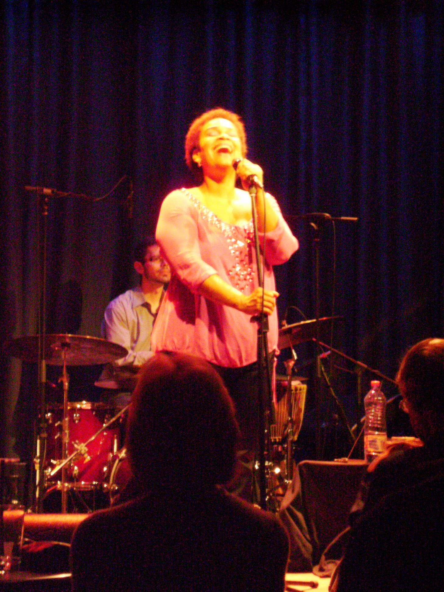 Cécile Verny at the „Jazz-Schmiede“ 2011 in Düsseldorf, Germany, Dez 02, 2011